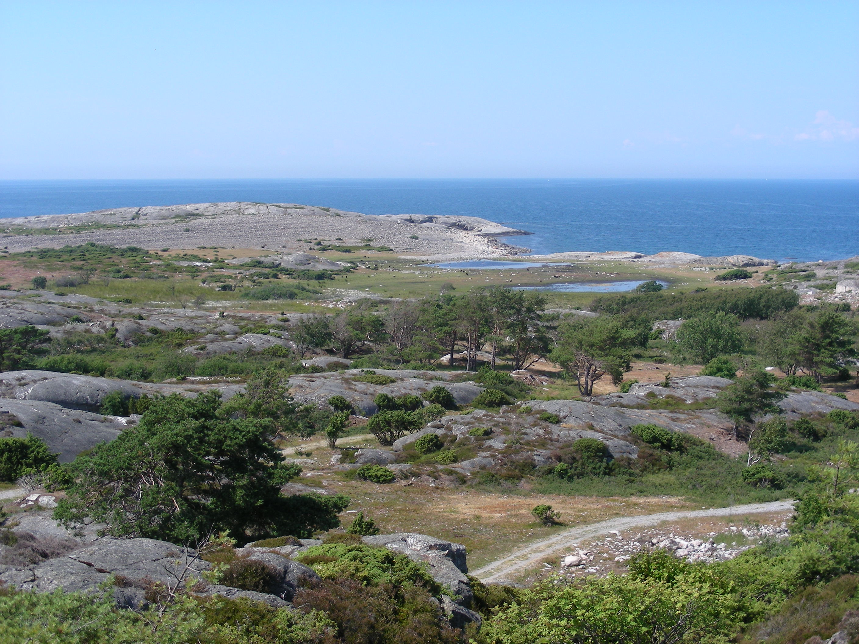 landscape in the Kosterhavet national park